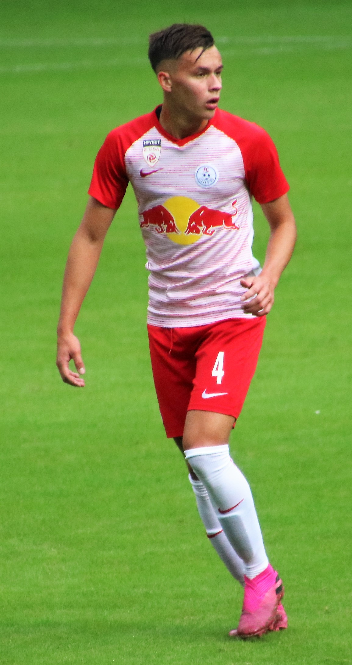 League match Austria 2nd league